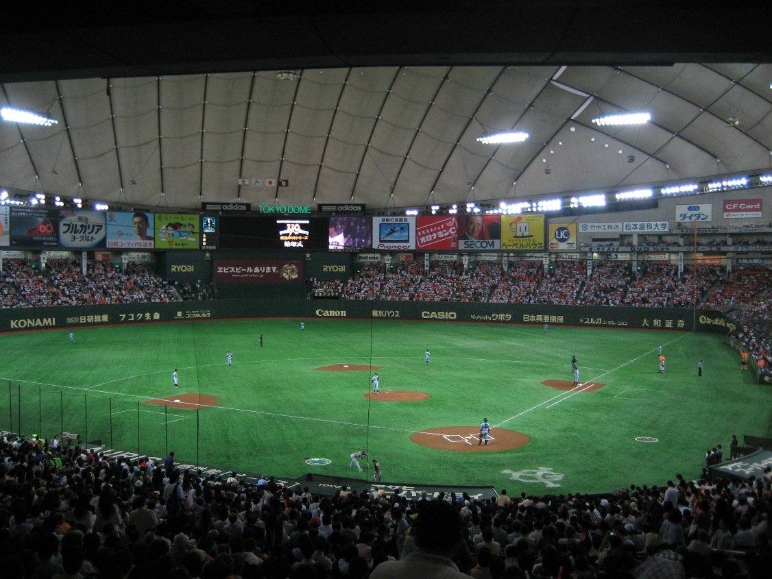 This is a shot of the field in the Tokyo Dome during a game between the Yomiuri Giants and the Nippon Ham Fighters on June 10, 2007. 02:26, 12 June 2007 . . Stevec240 . . 1126×845 (311,394 bytes)